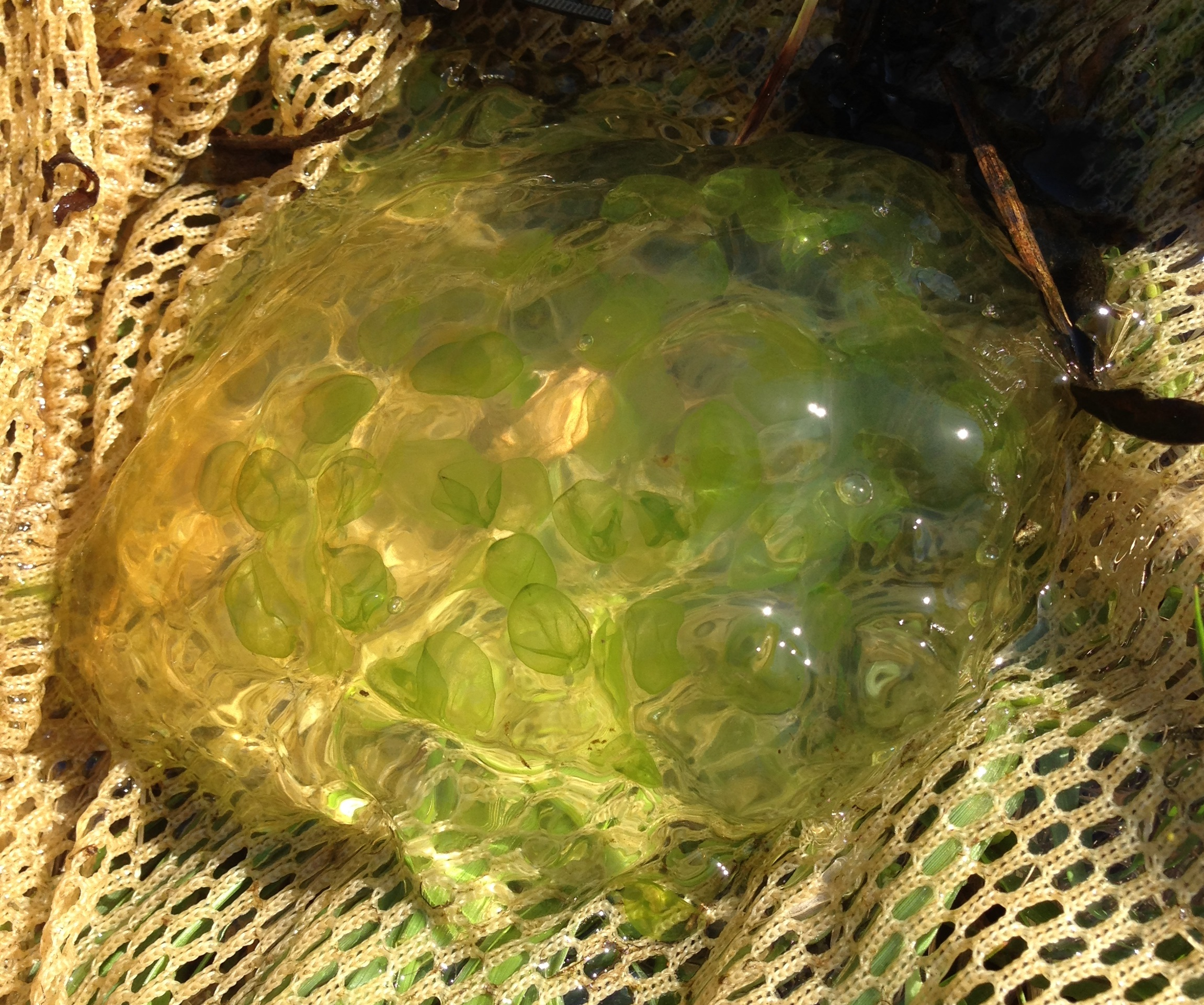 Ambystoma maculatum (spotted salamander) egg masses with algae visible inside the eggs at the University of Mississippi Field Station.